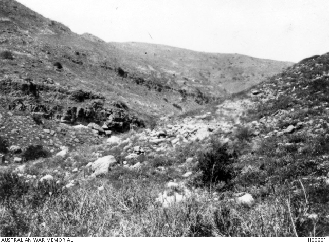 AWM caption: Palestine, Transjordan. A steep portion of the road marked by trees (centre) passing through the Es Salt Wady and leading to the town of Es Salt.